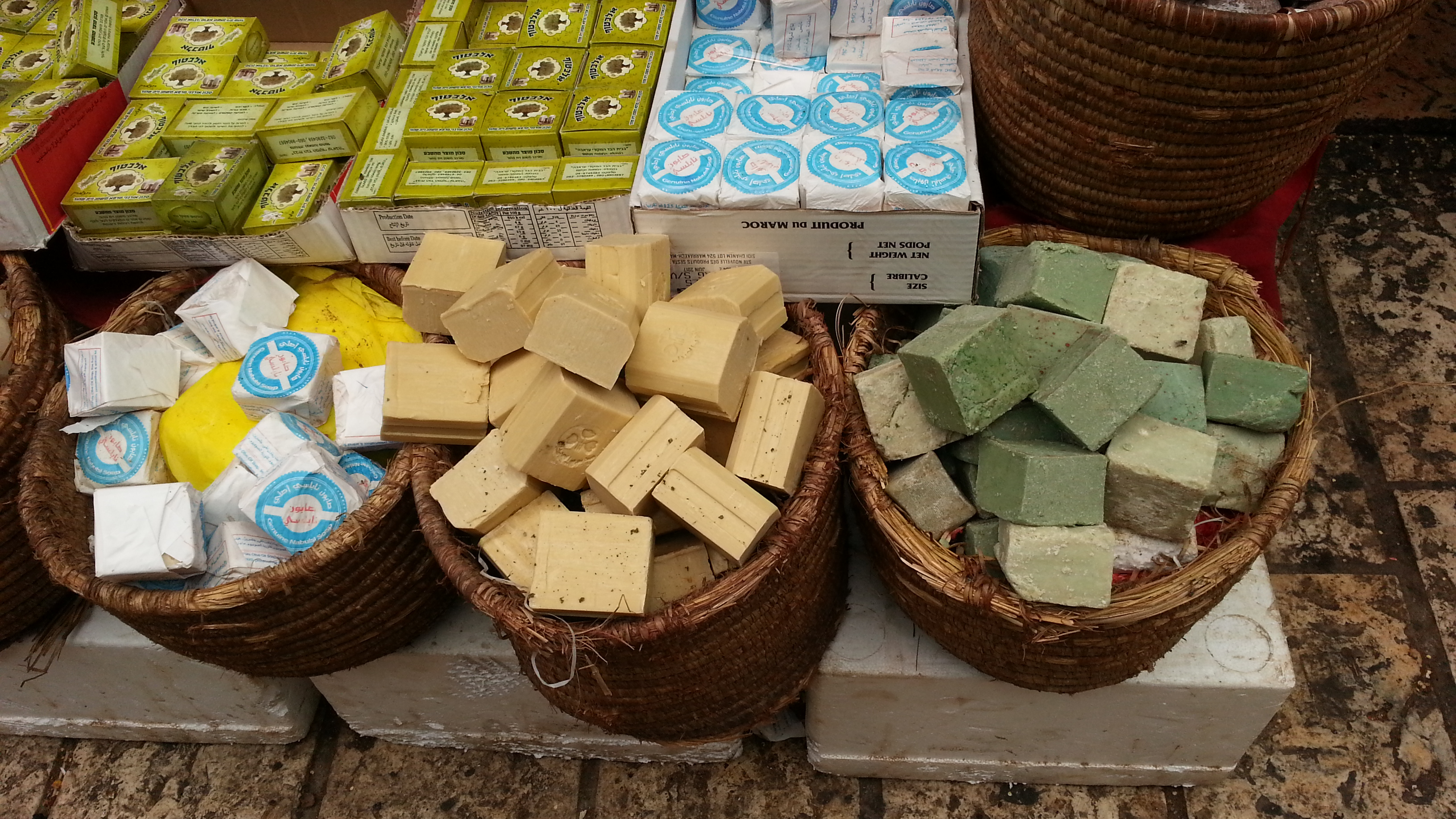 Tourism